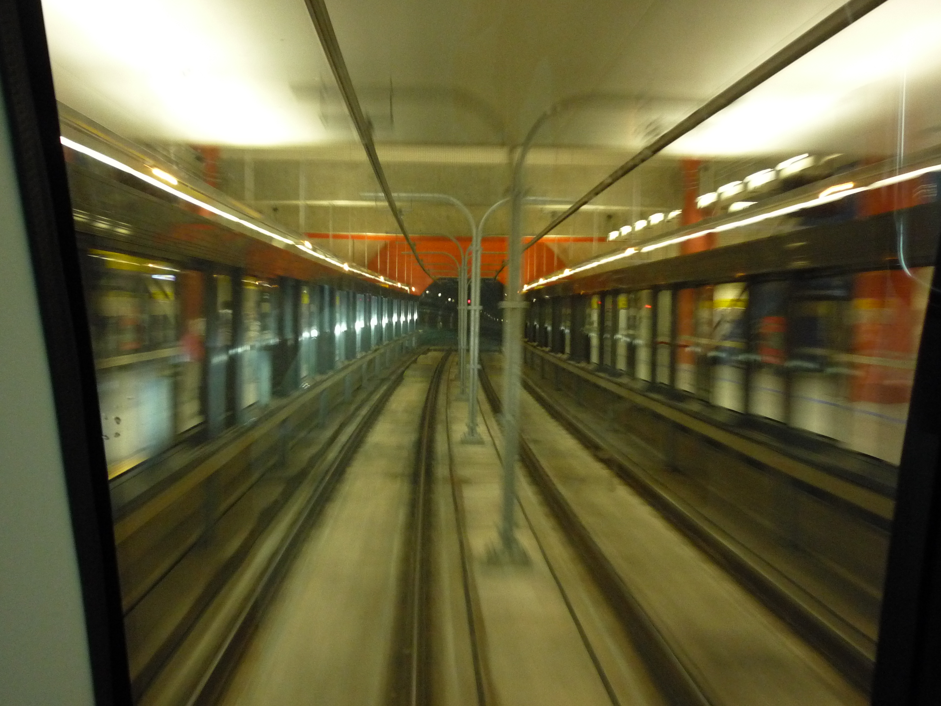 Trem chegando na estação Luz da Linha 4 da Via Quatro.